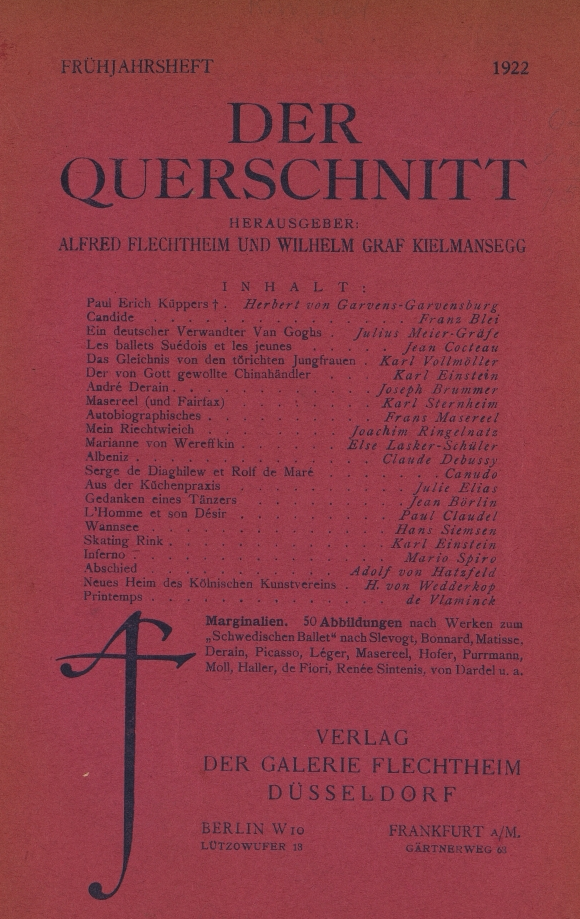 Front cover of the 1922 Year Issue of Der Querschnitt, published by Alfred Flechtheim in Düsseldorf.